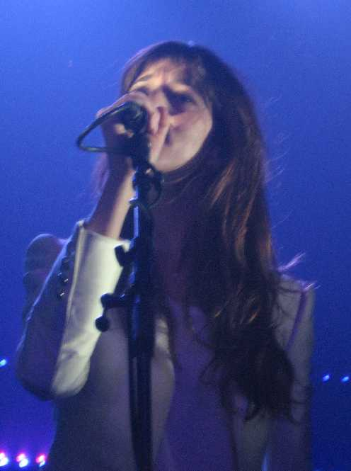 Charlotte Gainsbourg during the Air concert in Melkweg, Amsterdam (March 27th, 2007)